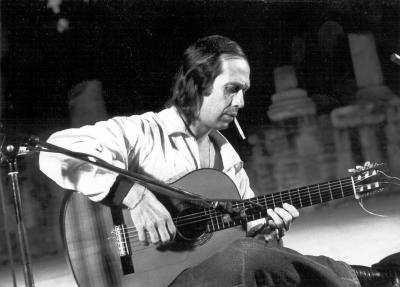 Paco de Lucia in Arles (France) before a show with John McLaughlin